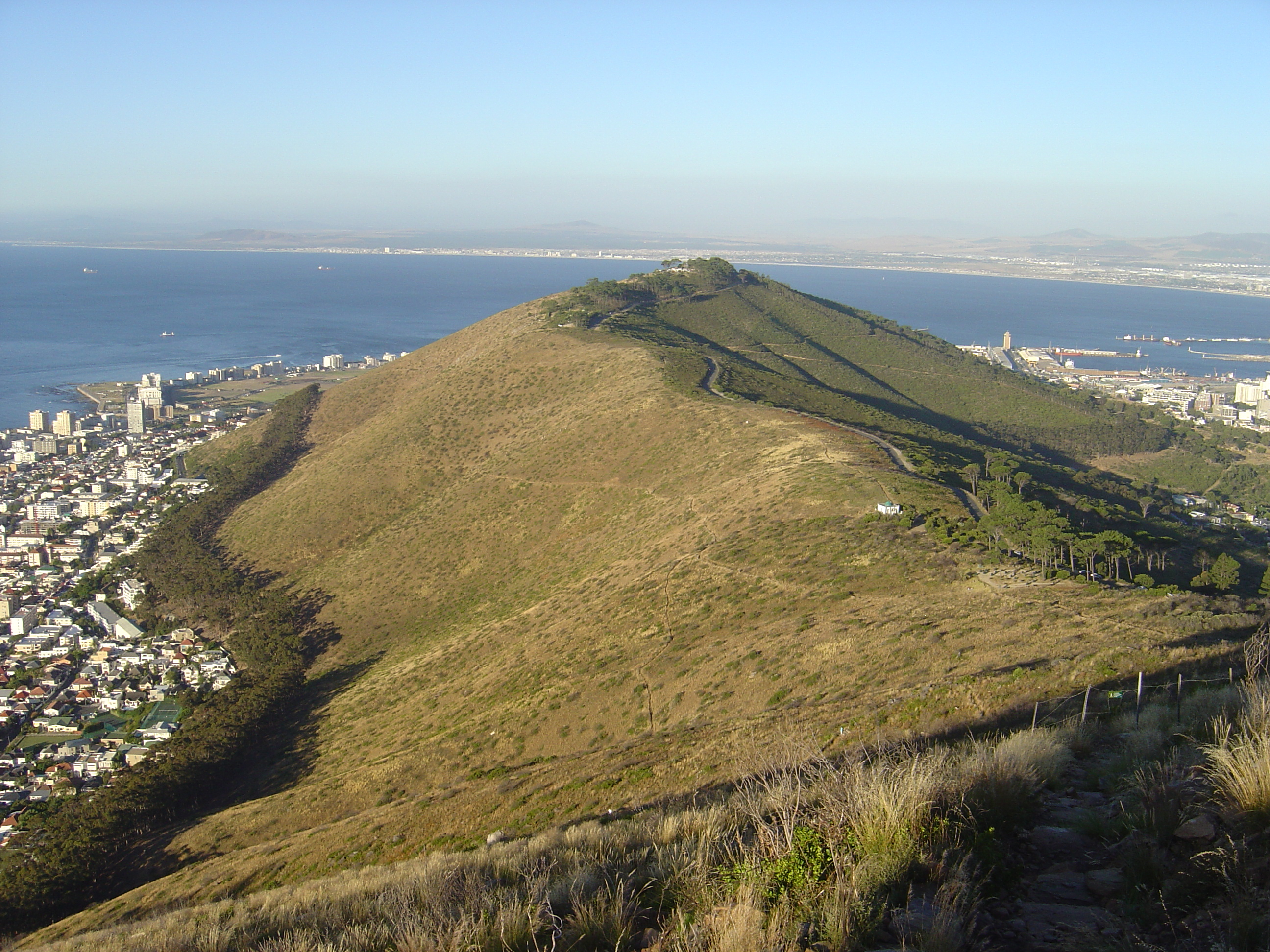 Signal Hill, Cape Town, South Africa seen from Lion's Head. Originally uploaded to EN Wikipedia as File:SignallHill.JPG by User:Zaian 10 January 2007